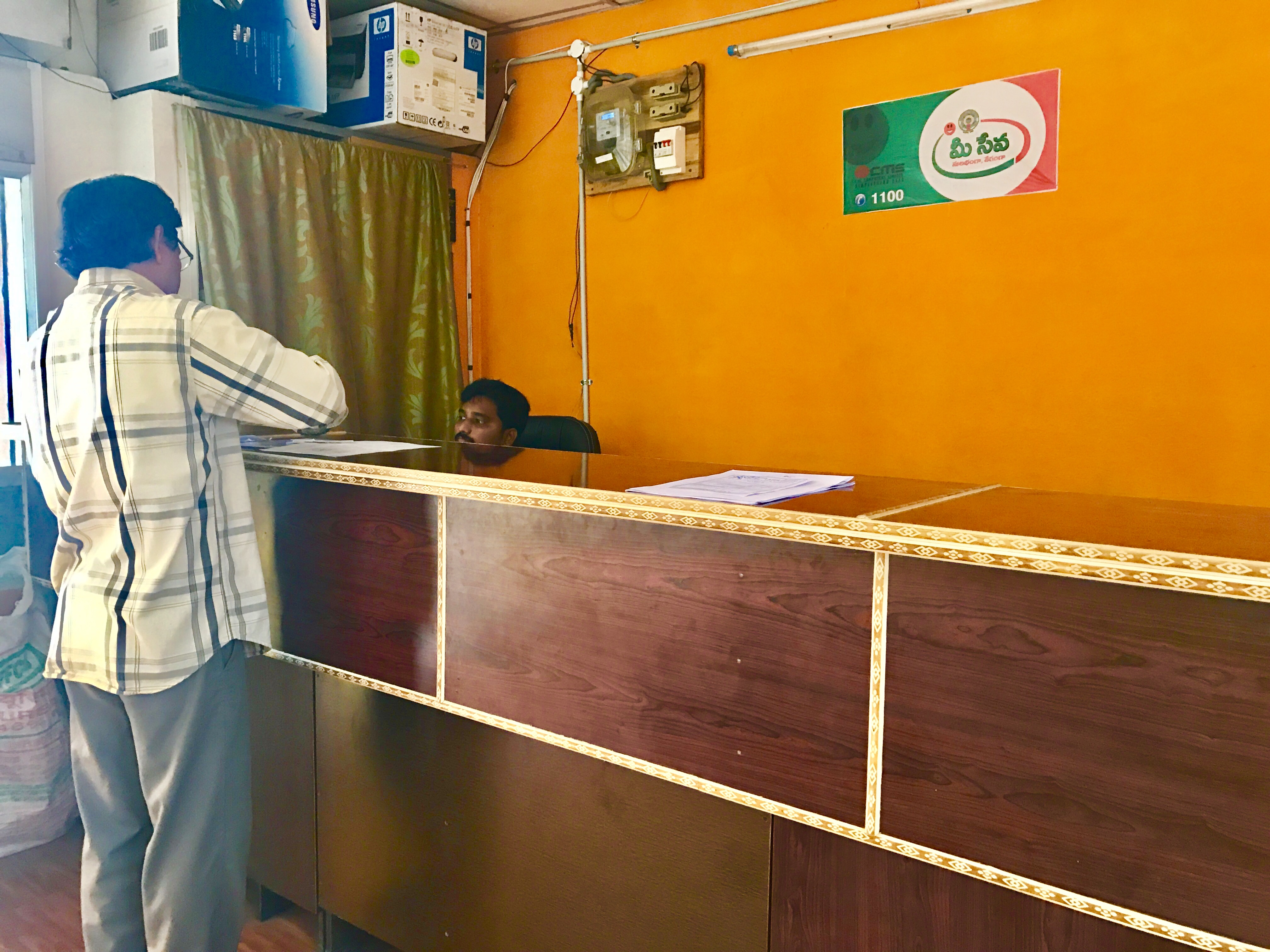 Mee seva office in Velagapudi village